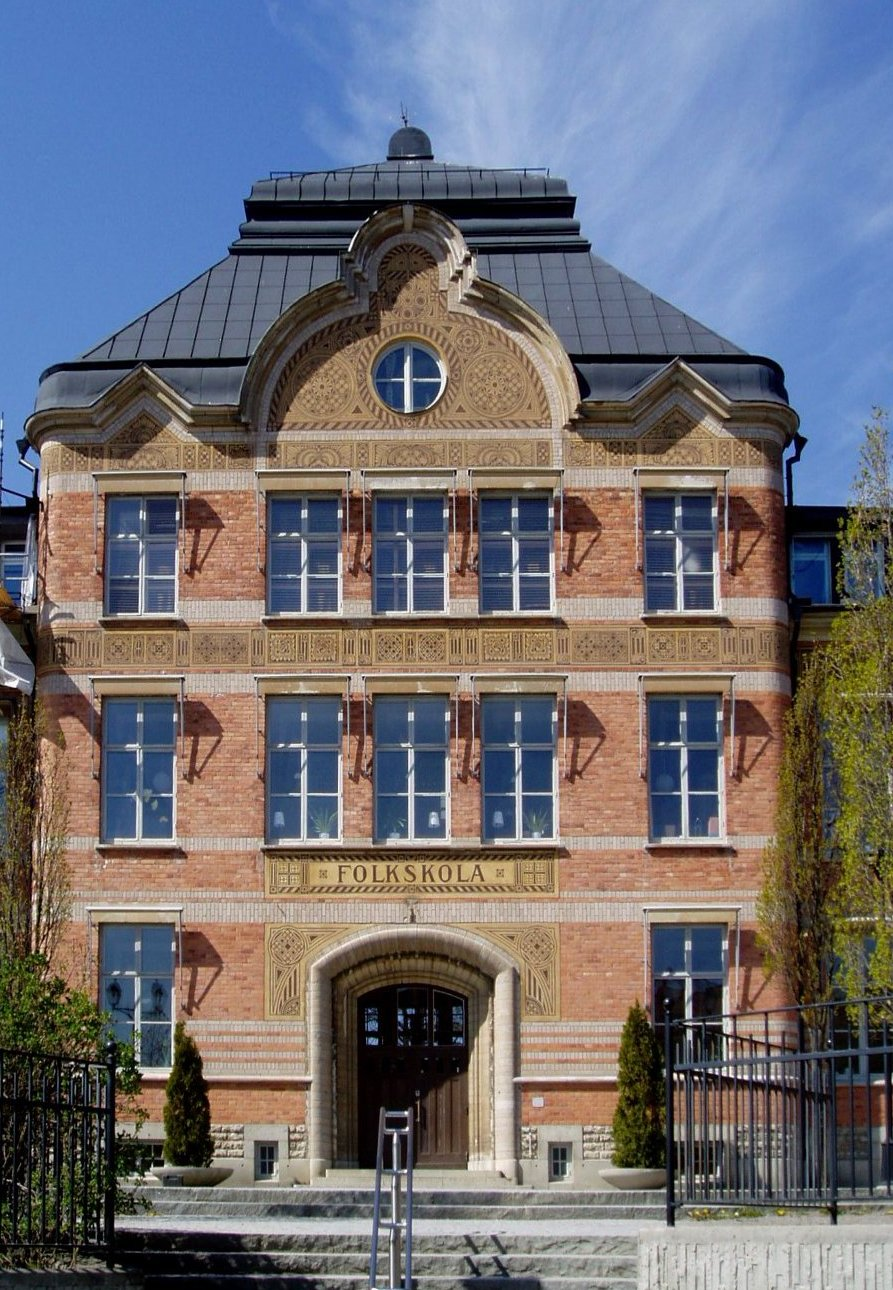 Västerås Museum and school — in Västerås, Sweden